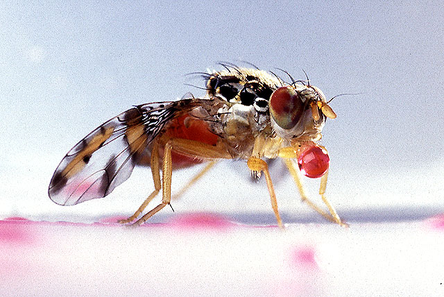 Medfly 2 from Image Number K7026-19 ARS scientists in Hilo, Hawaii are collaborating with ARS researchers at Weslaco, Texas, to investigate phloxine B, better known as the FDA-approved red dye number 28. The dye, might prove a safe, effective alternative to today's malathion insecticide. Medflies often share regurgitated food. This helps spread the insecticidal dye-and-bait blend through the population. Photo by Scott Bauer.